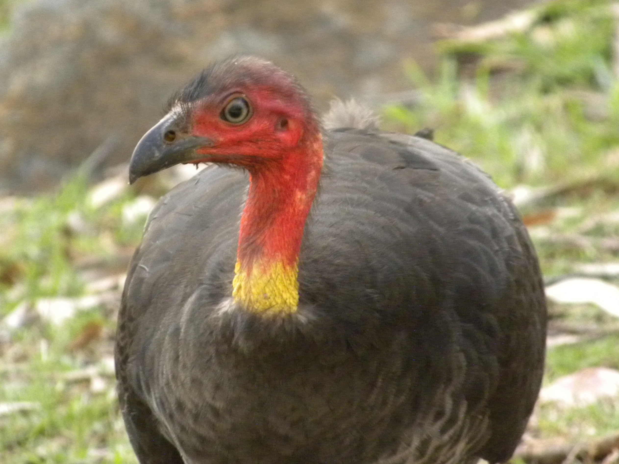 Brush Turkey found in Central Queensland, Australia